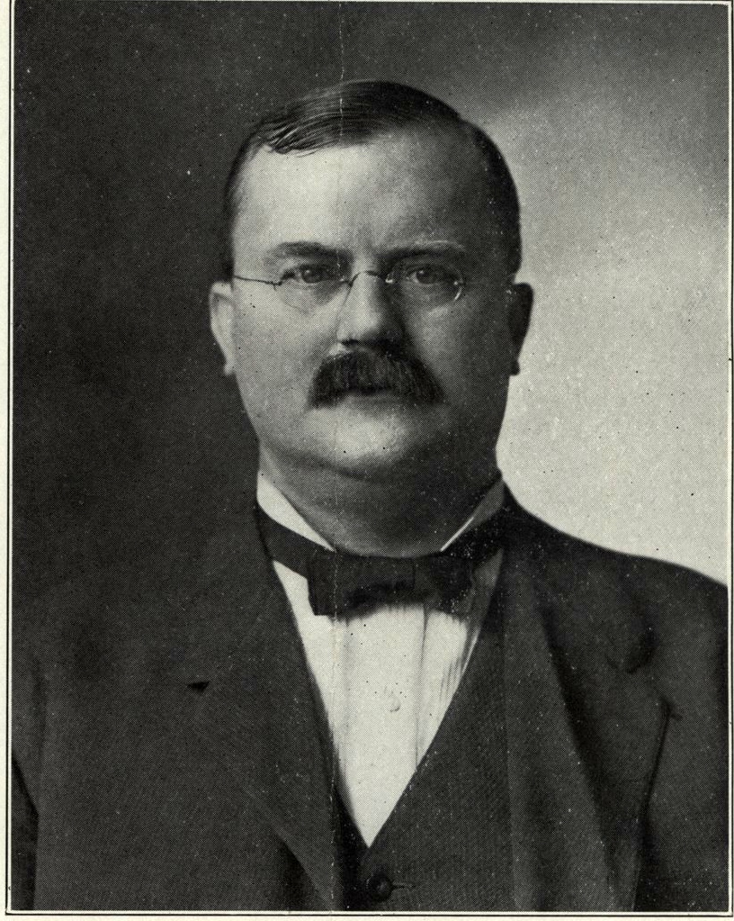 Portrait of Frank Shuman